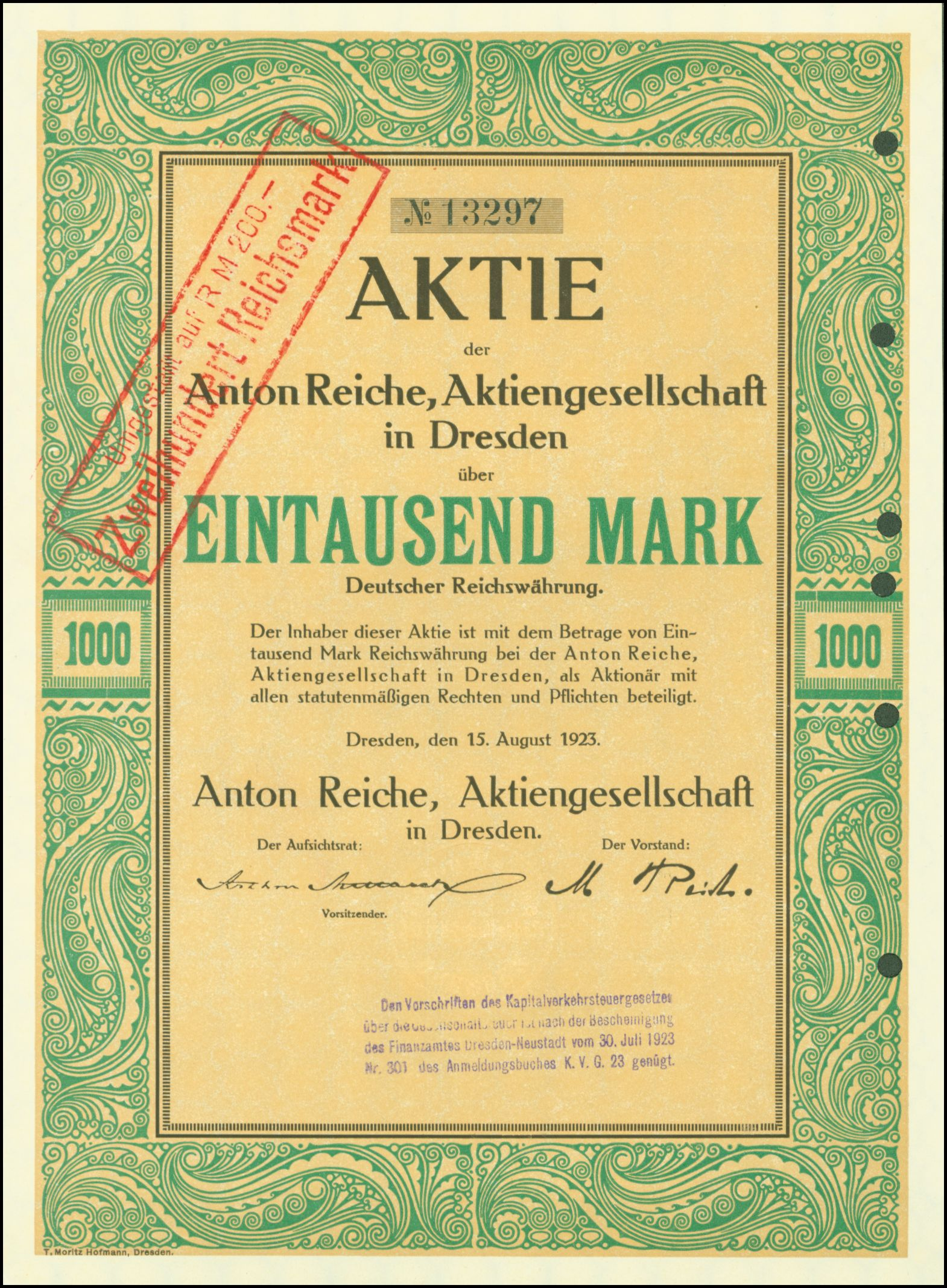 Share of the Anton Reiche AG in Dresden, issued 15. August 1923